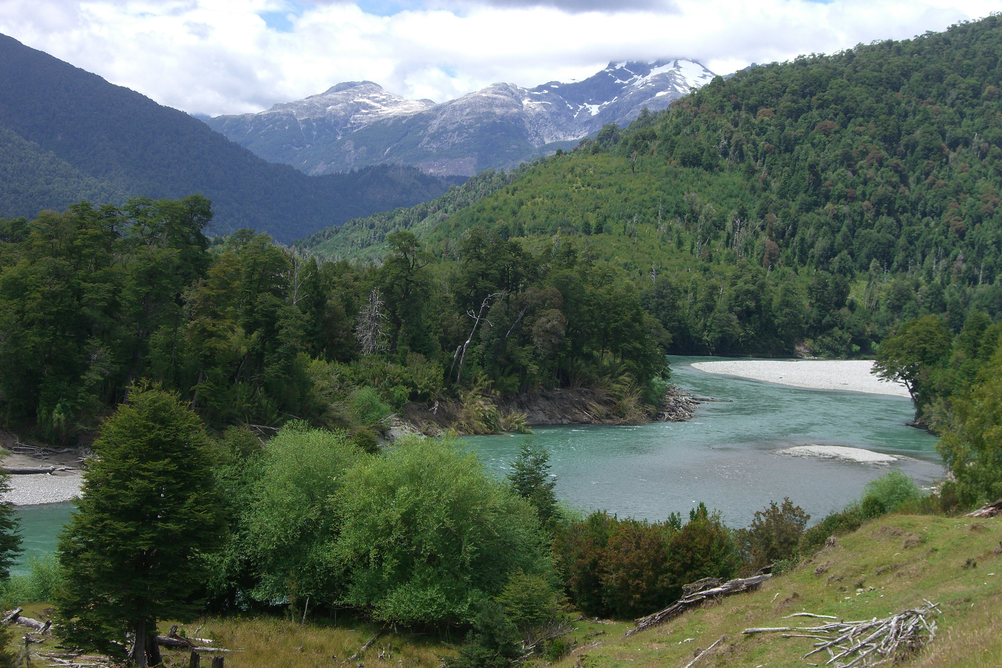 Just one of many lovely views along the road from Villa Santa Lucia to La Junta. Picturesque pasture along the valley floor and lush, pristine rainforest on the snow-capped mountains, with sparking azure glacier-fed rivers.